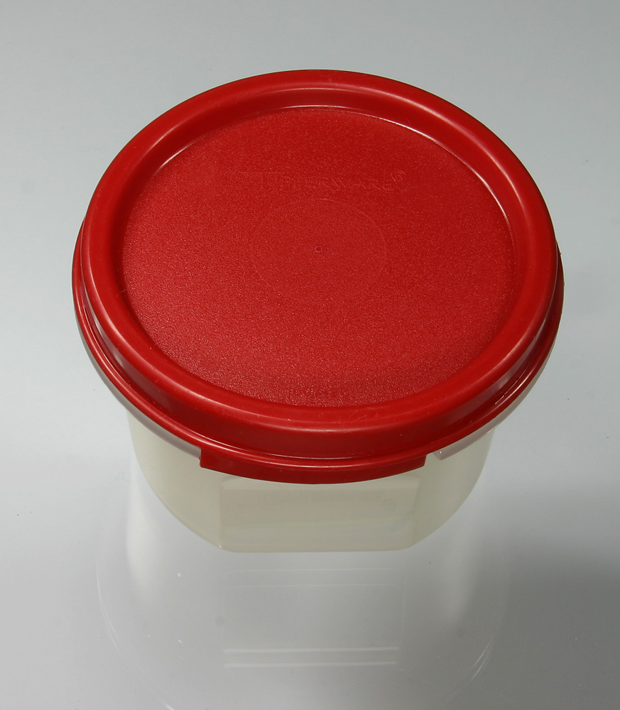 Tupperware